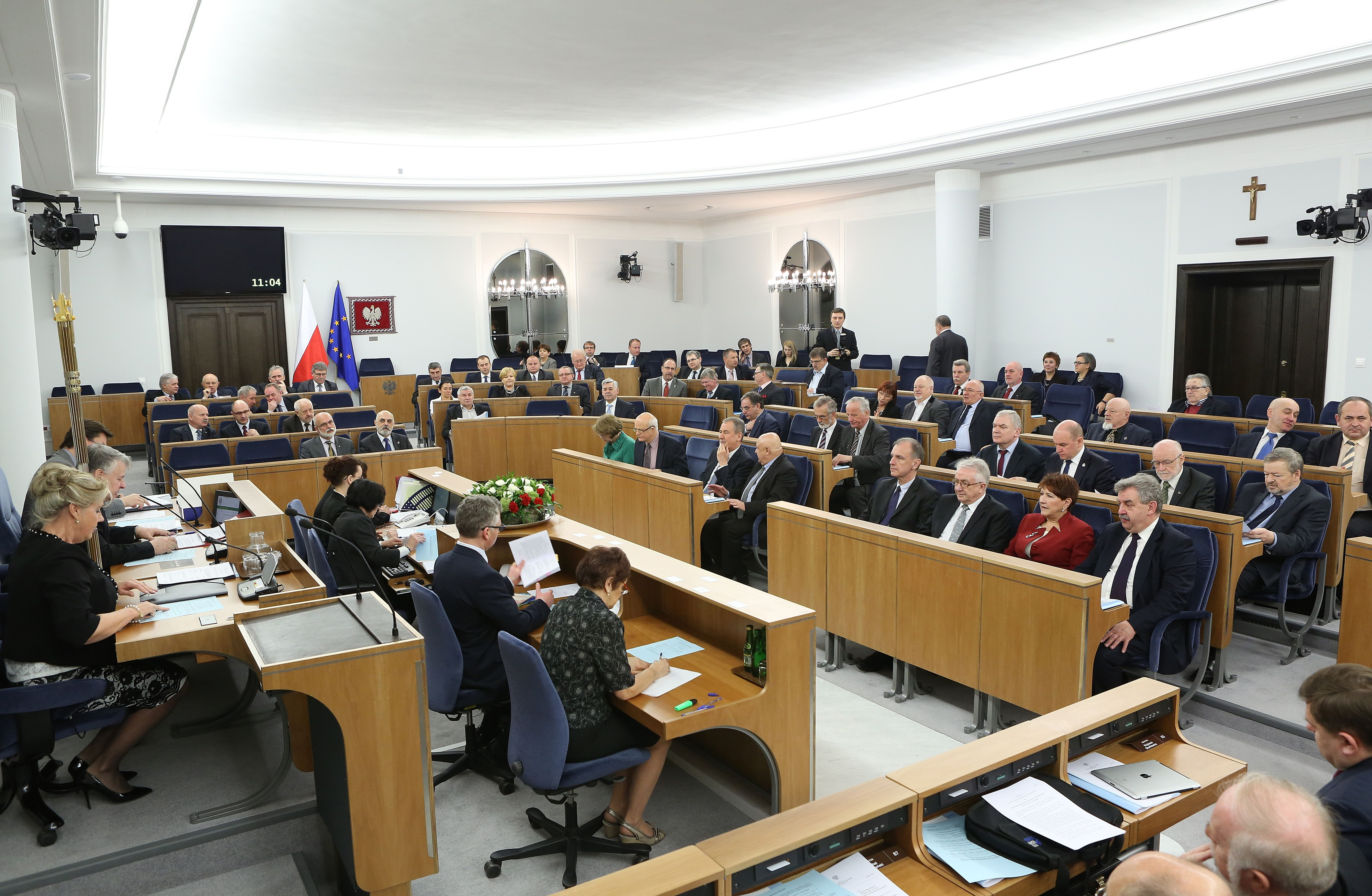 49th sitting of the Polish Senate